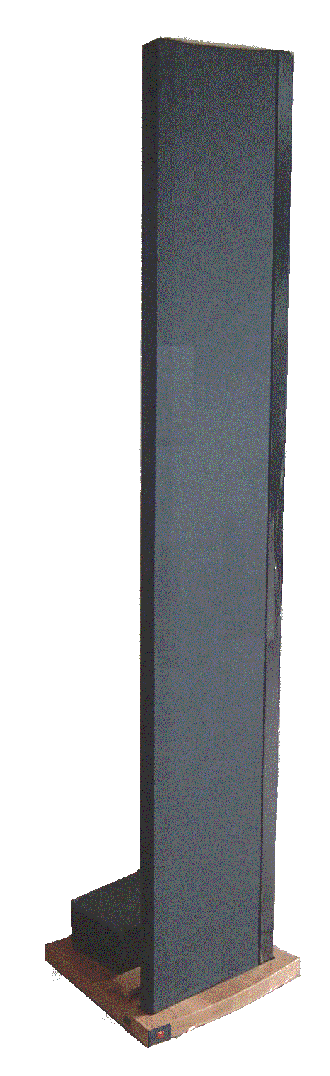 Example of an electrostatic loudspeaker.